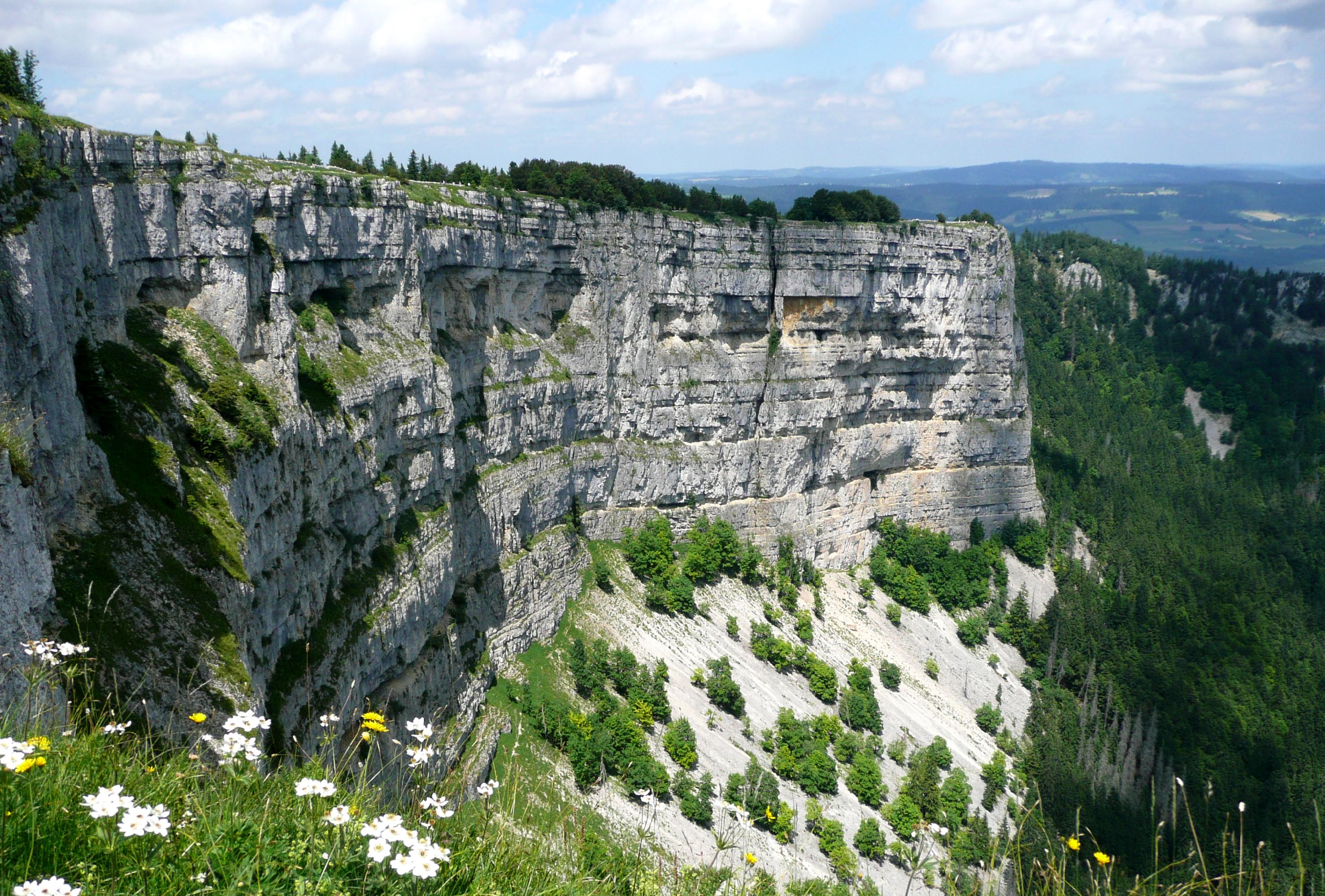 View of the cliffs of the Creux du Van, near Neuchâtel, Switzerland. The Creux du Van is an emblematic sight in the Jura mountains.